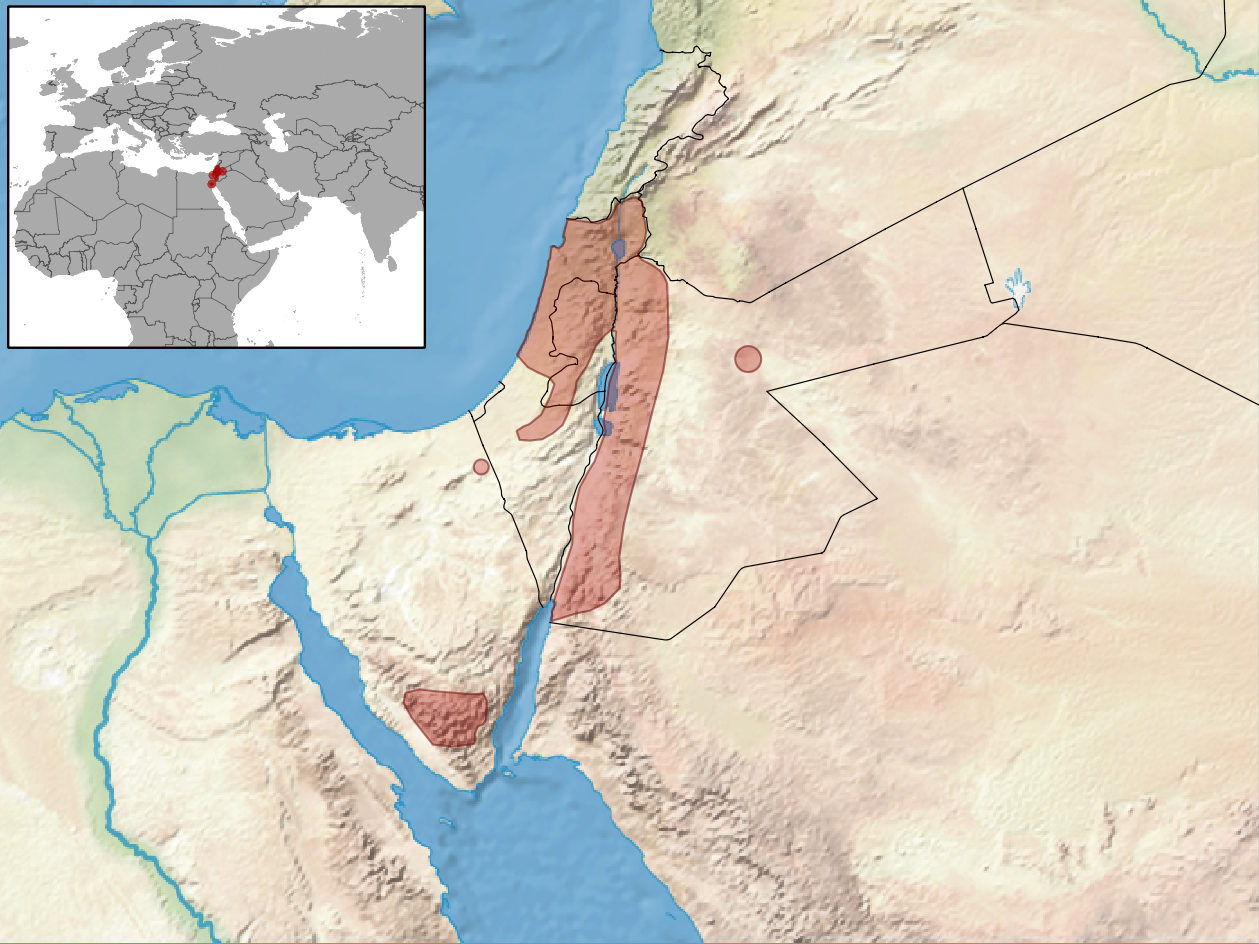 geographic distribution of Ablepharus rueppellii